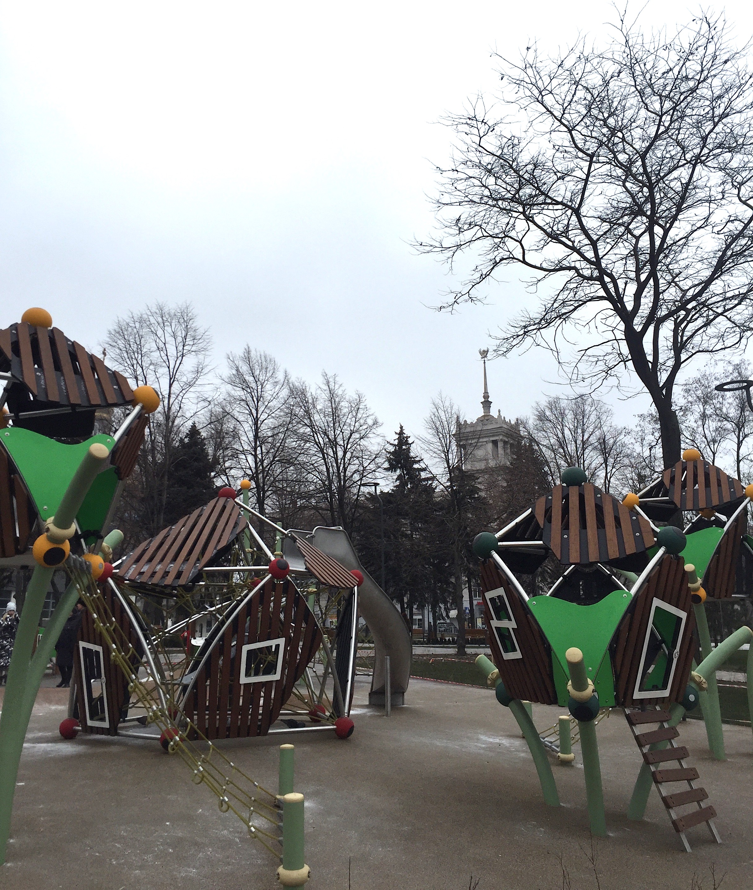 Playground in the center of Mariupol